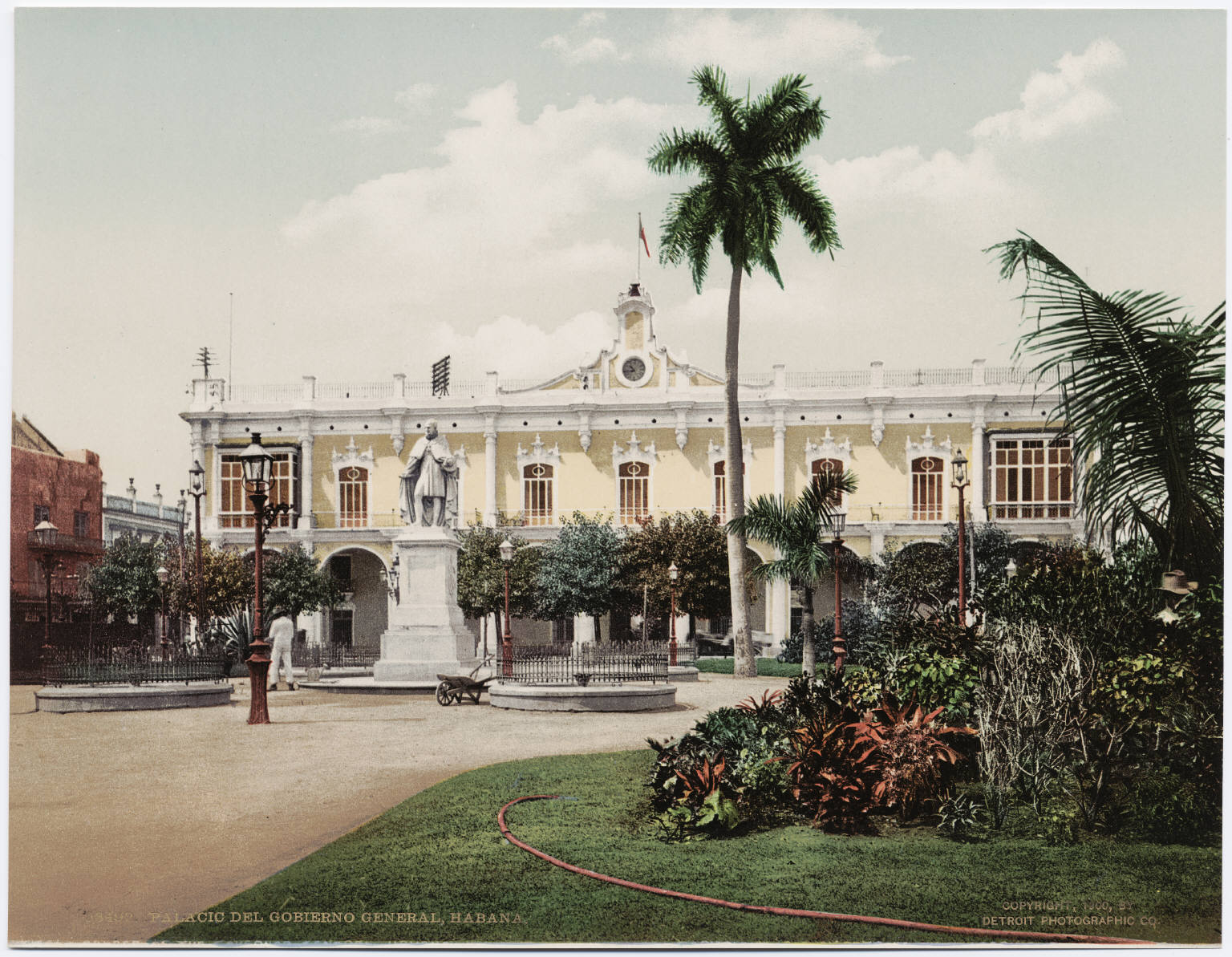 A photochrom postcard published by the Detroit Photographic Company.